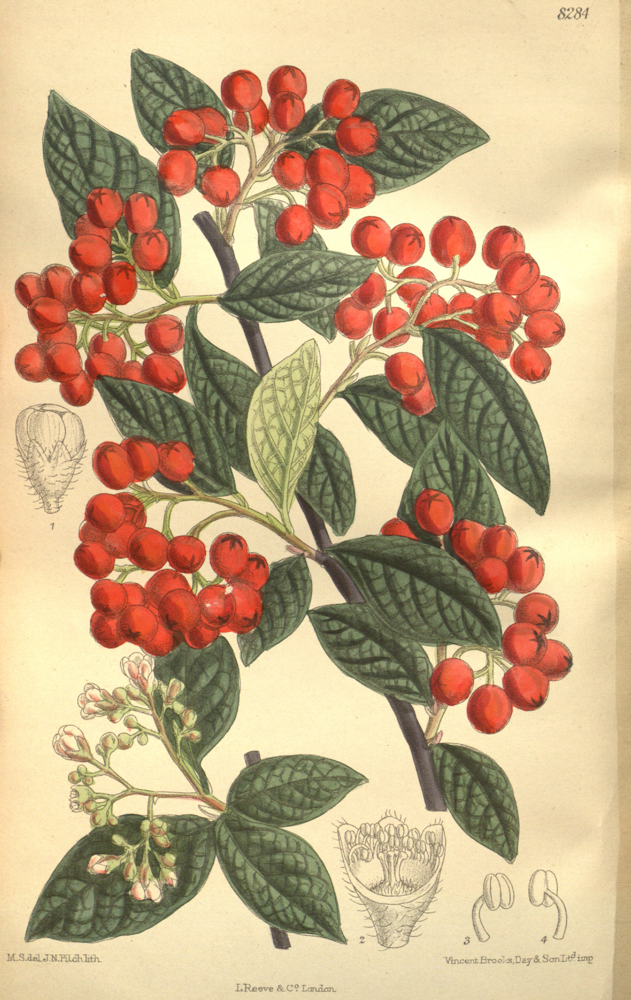 Cotoneaster moupinensis f. floribunda (= Cotoneaster bullatus var. floribundus), Rosaceae